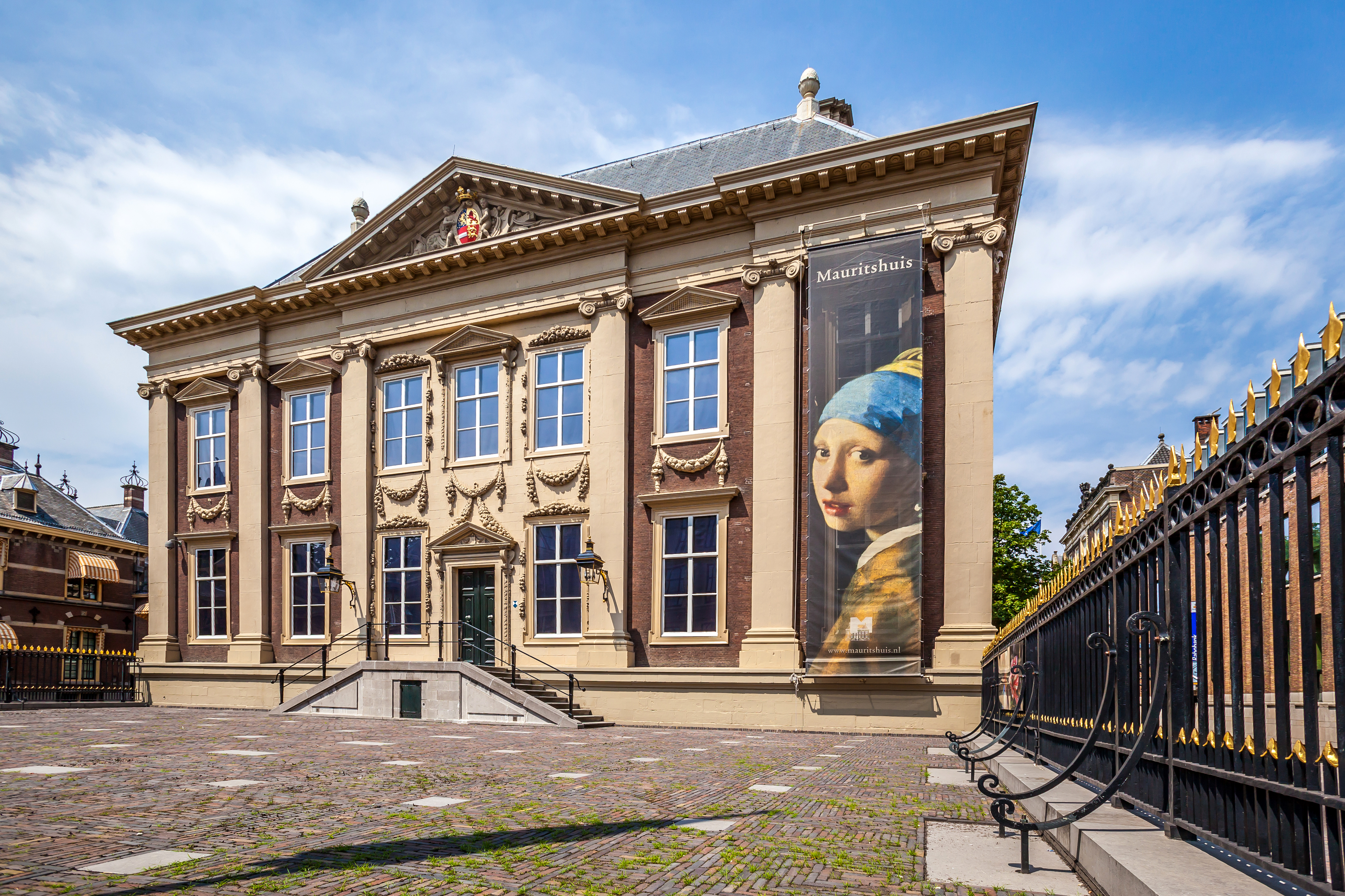 Mauritshuis, The Hague (07/2011 - my favorite museum, since 1996 ...) - Human picture: (1 body / 1 lens / 1 human = 1 picture ) 0% AI ... ;- ) ... Following vandalization (Rotterdam) of my work, final stop of this series on European cities. My work not being respected, I definitively stop my publications in Wikimedia Commons (including definition and quality updates). Final publication in Wikimedia Commons